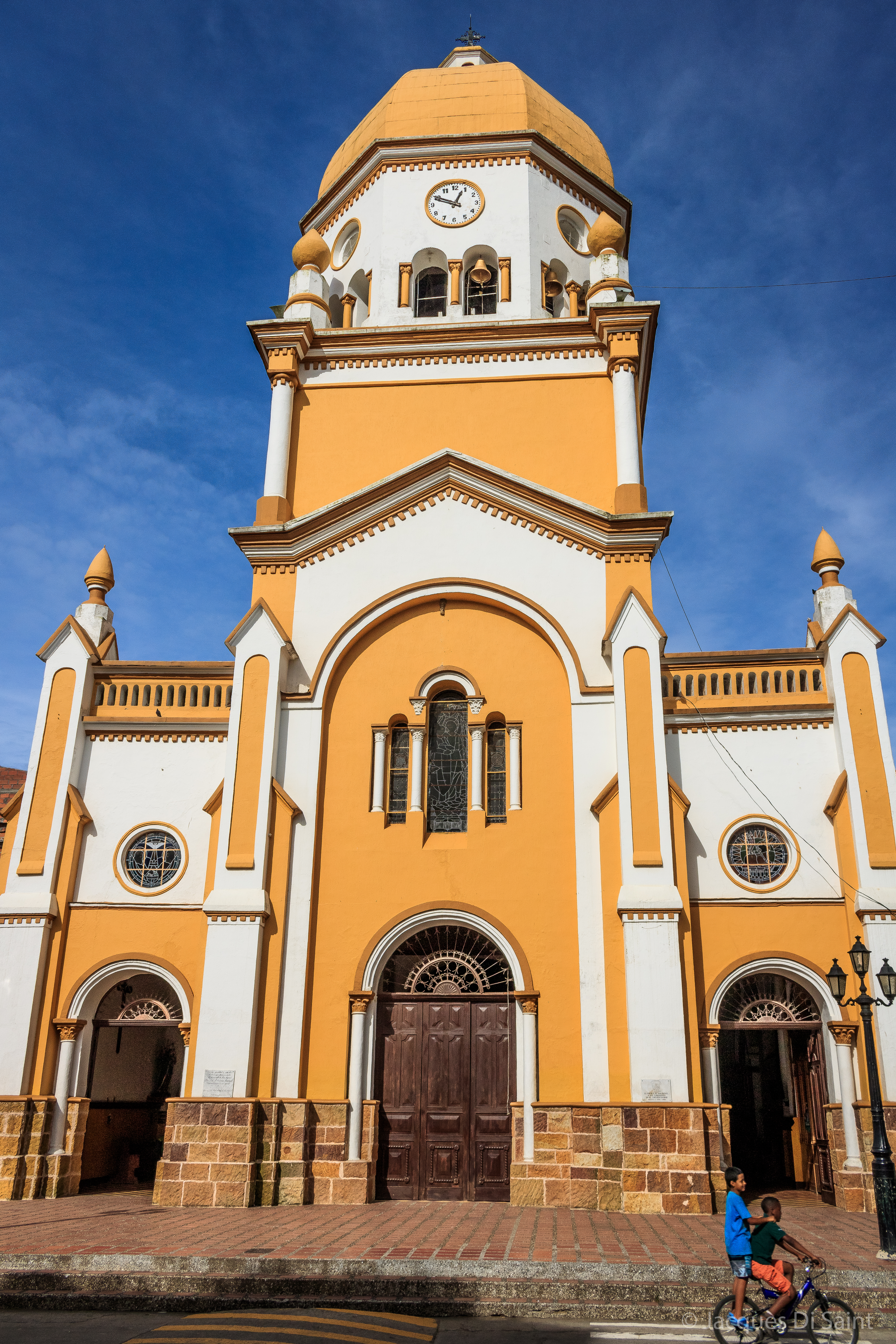 Iglesia principal atractivo de San Rafael